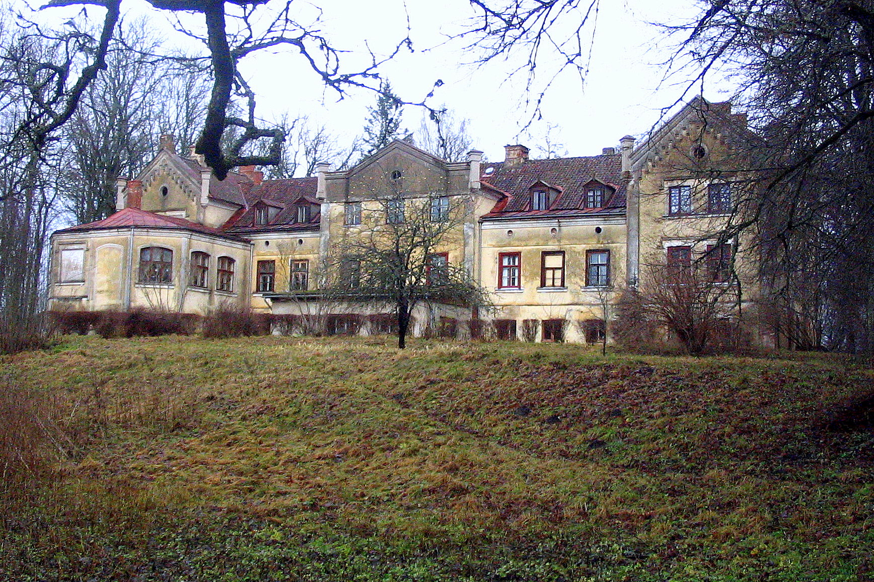 Ķimale manor house (Kimahlen)